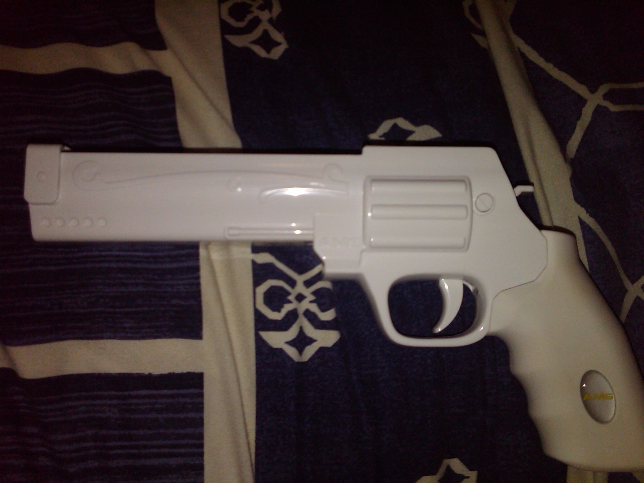 A photo of the "Hand Cannon" peripheral for the Wii game "The House of the dead: Overkill"